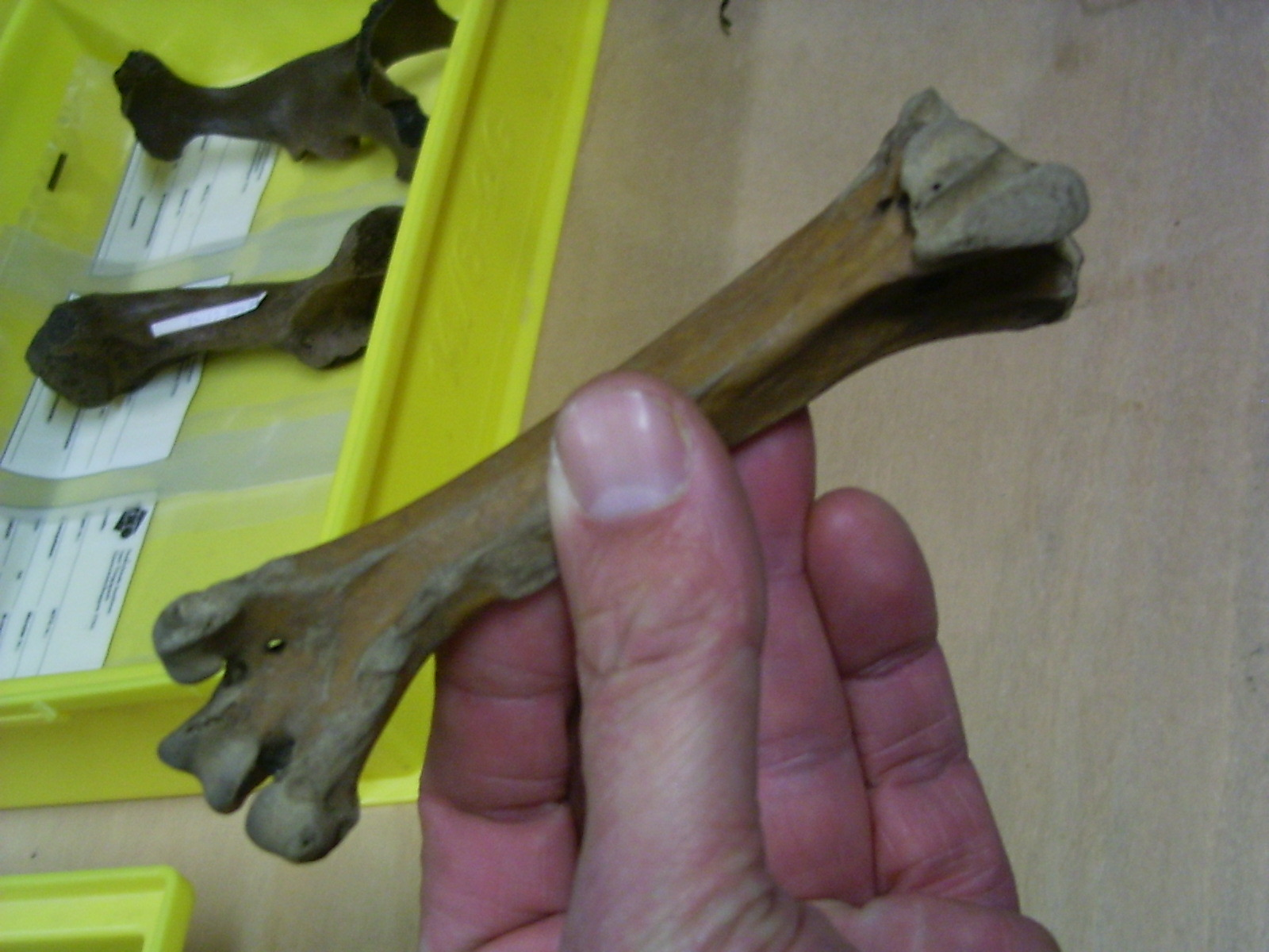 Legbone of a dodo (Raphus cucullatus)